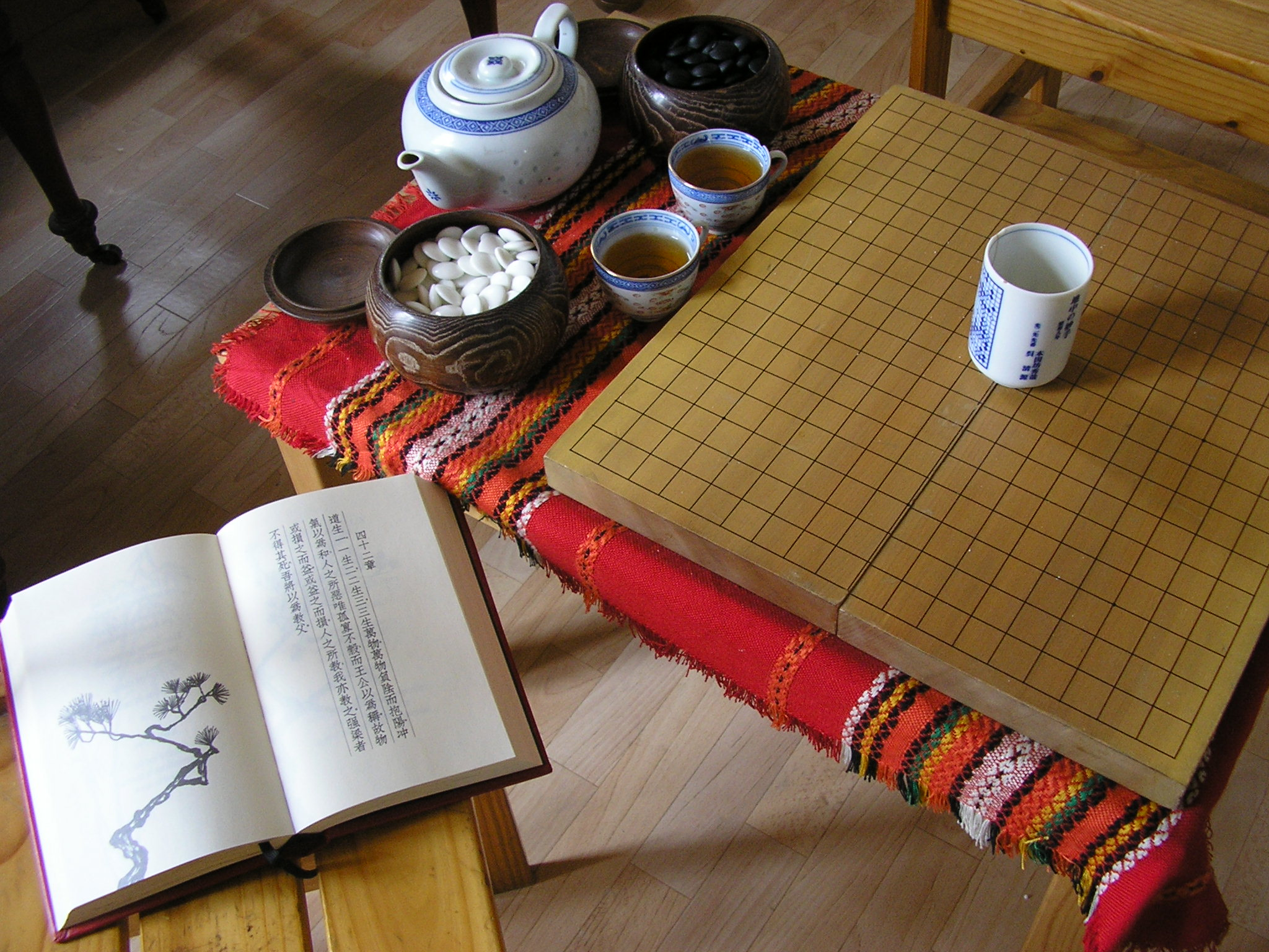 Four arts which the Japanese learnt from China: writing, porcelain, tea and the game of Go. They are shown together on the small goblet in the middle, and separately around the table.